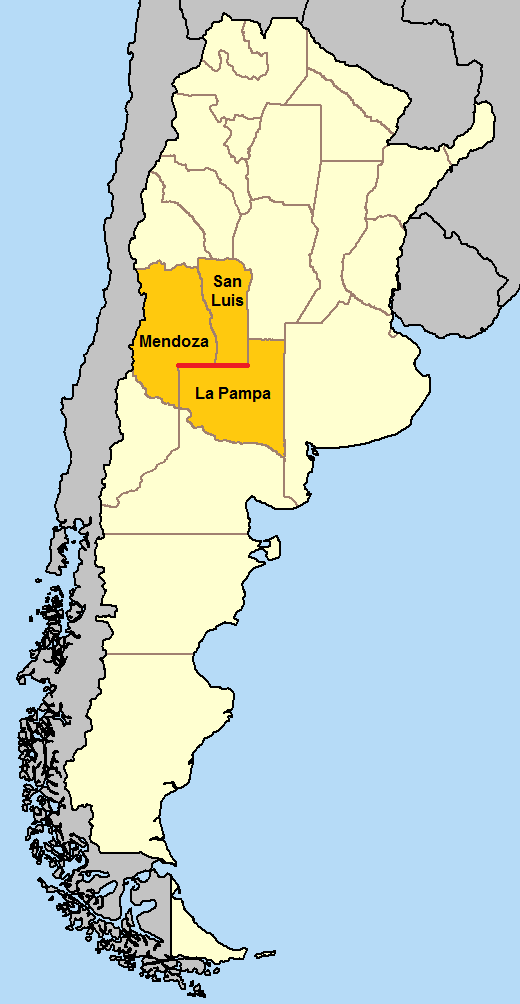 Map showing the location of the 36th parallel south, defining the border between Argentinian provinces